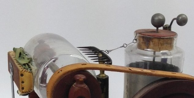 Corbett's 1810 electrostatic machine with a close-up of metal rake and glass cylinder that generates a high voltage static charge